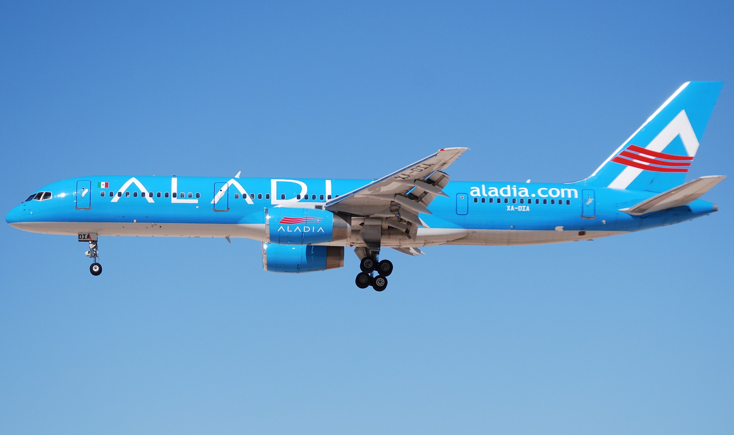 An Aladia Boeing 757 at McCarran International Airport, Las Vegas